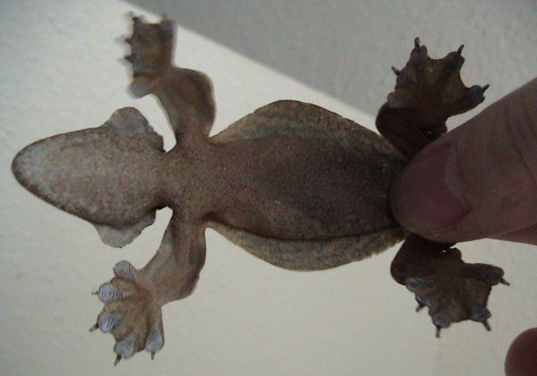 Underside of a Flying Gecko, Ptychozoon kuhli demonstrating gliding "flaps"